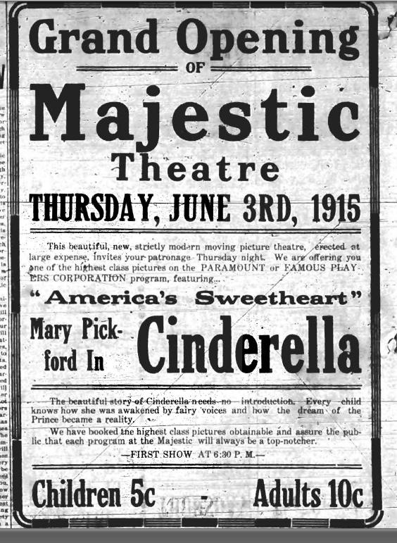 The advertisement that was featured in the Athens Messenger for the grand opening of the Majestic Theater at 20 S. Court St. Athens, OH. The Majestic Theater opened on June 3, 1915. Today the location is occupied by the Athena Cinema.